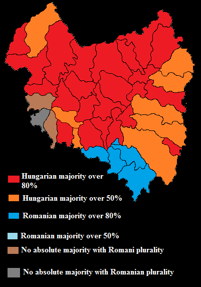 Ethnic map of Covasna County.